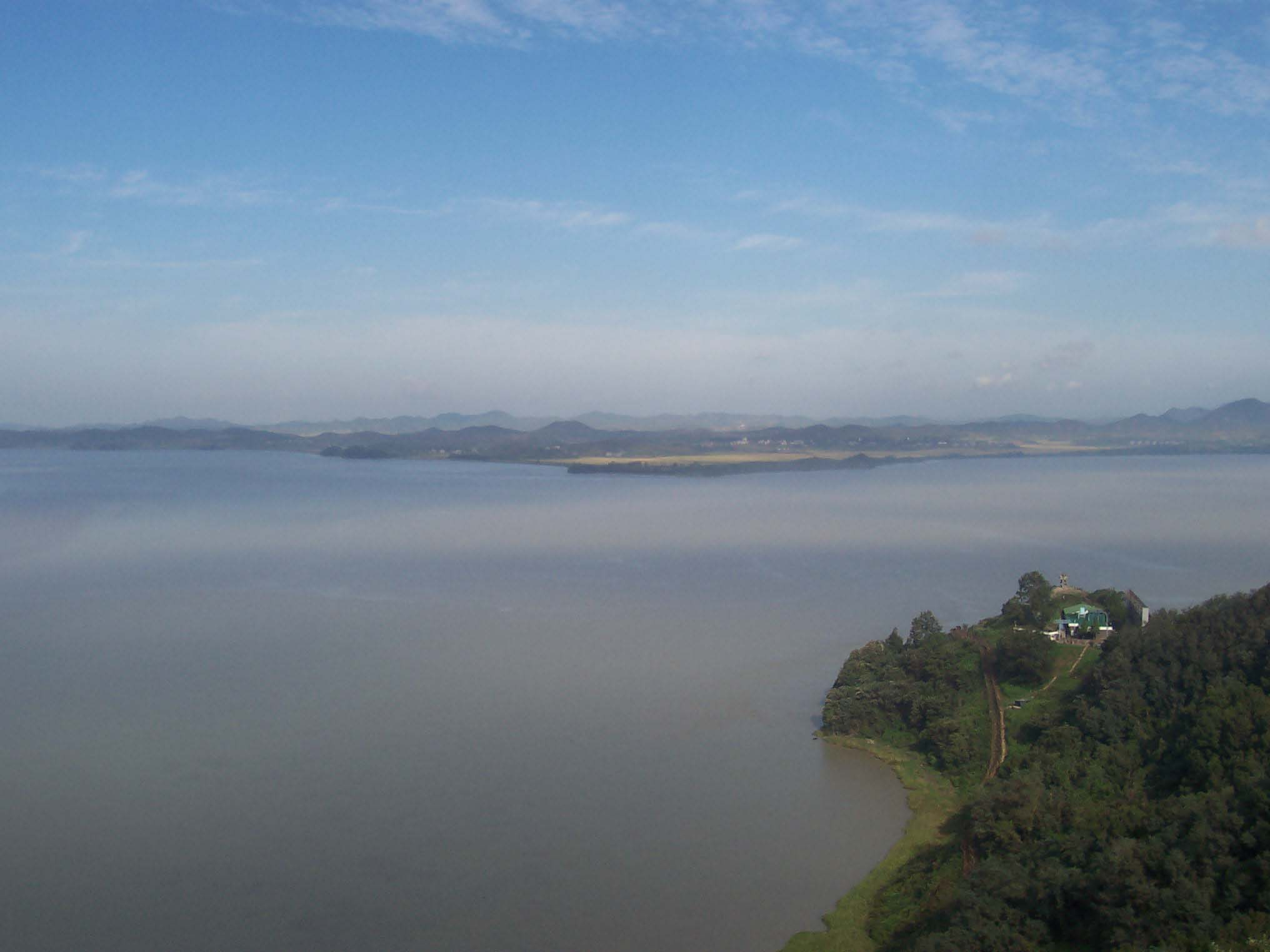 Imjin River meets Han River at the Odu Mountain